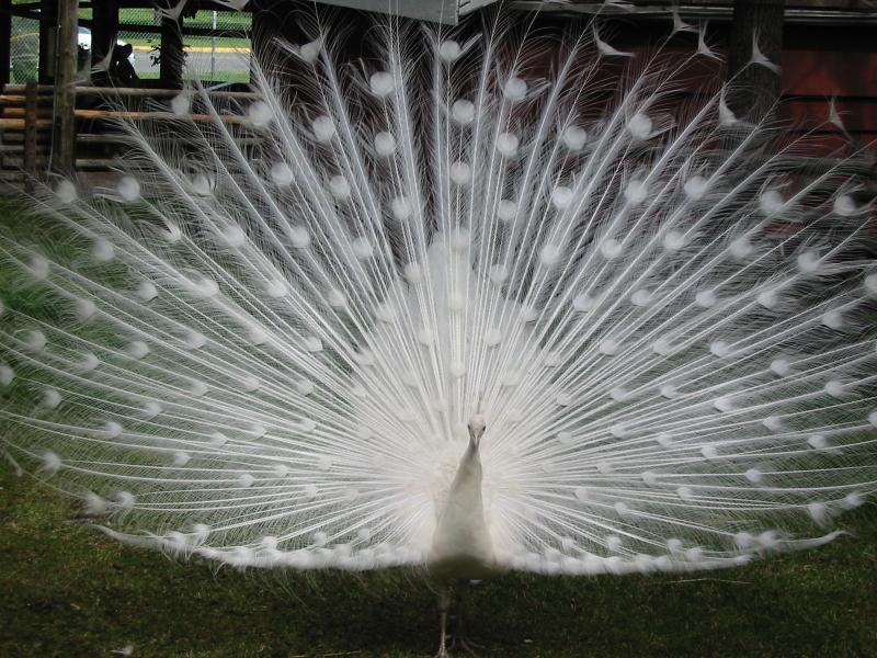 White peacock (Pavo cristatus, male) in front view at Beacon Hill Park, Victoria, British Columbia, Canada.